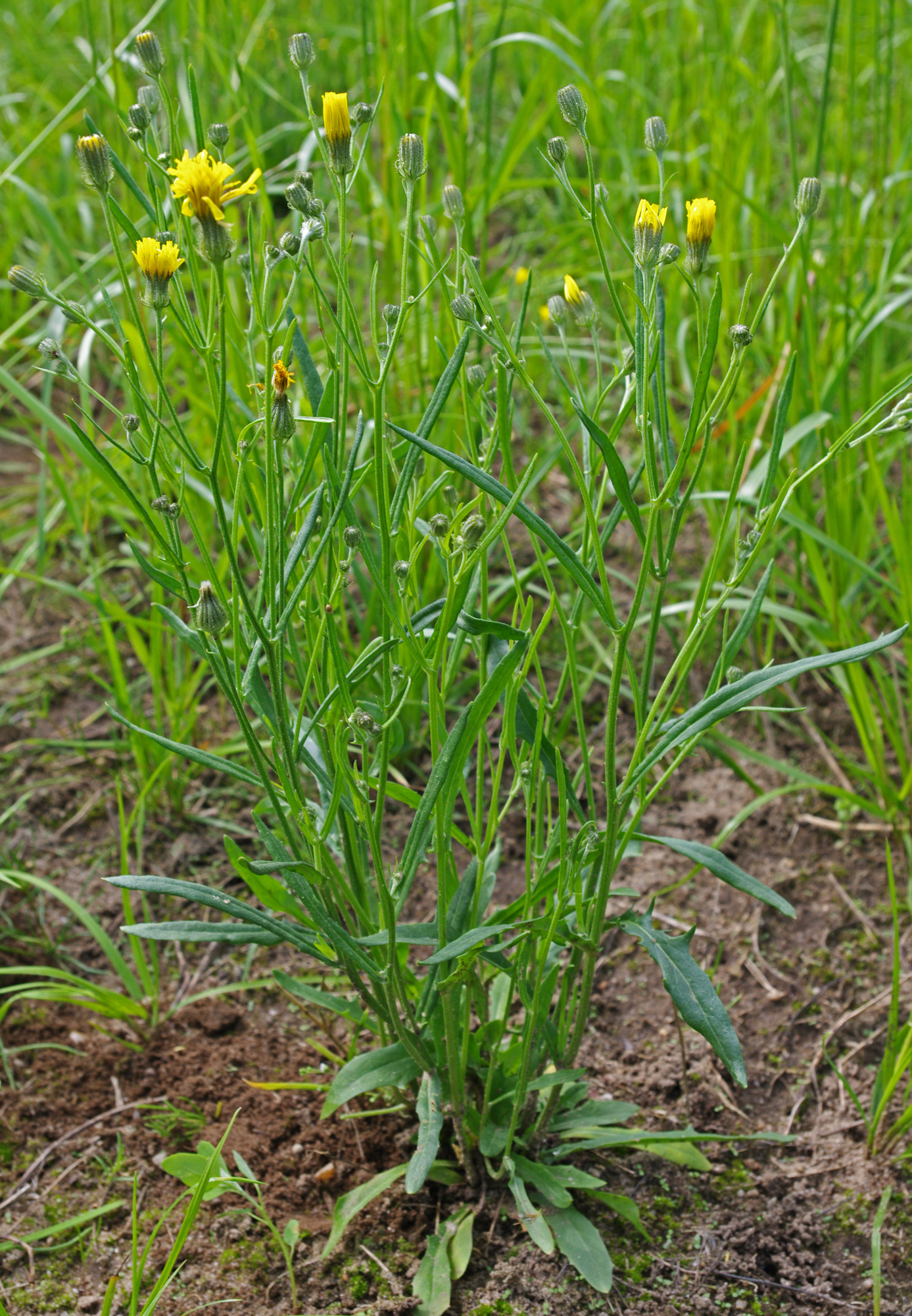 The plant Crepis tectorum in an organically-farmed sandy field.